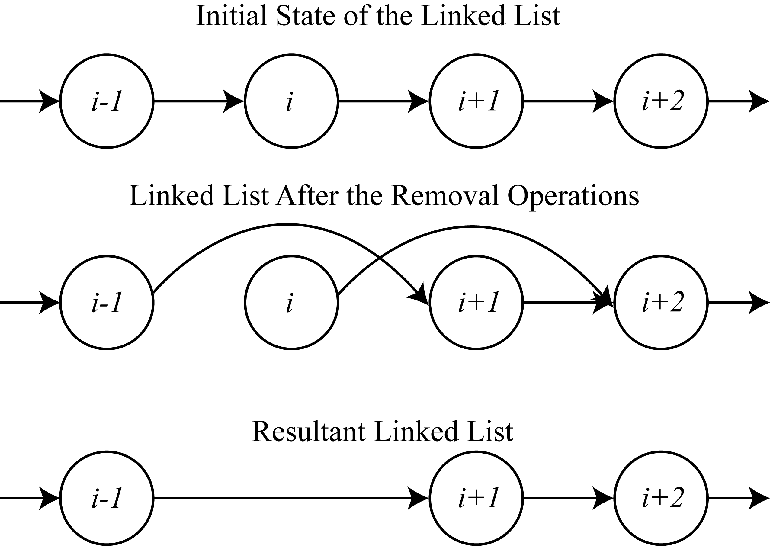 A simple example of two processes modifying a linked list at the same time causing a conflict.